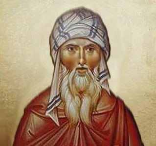 Jami